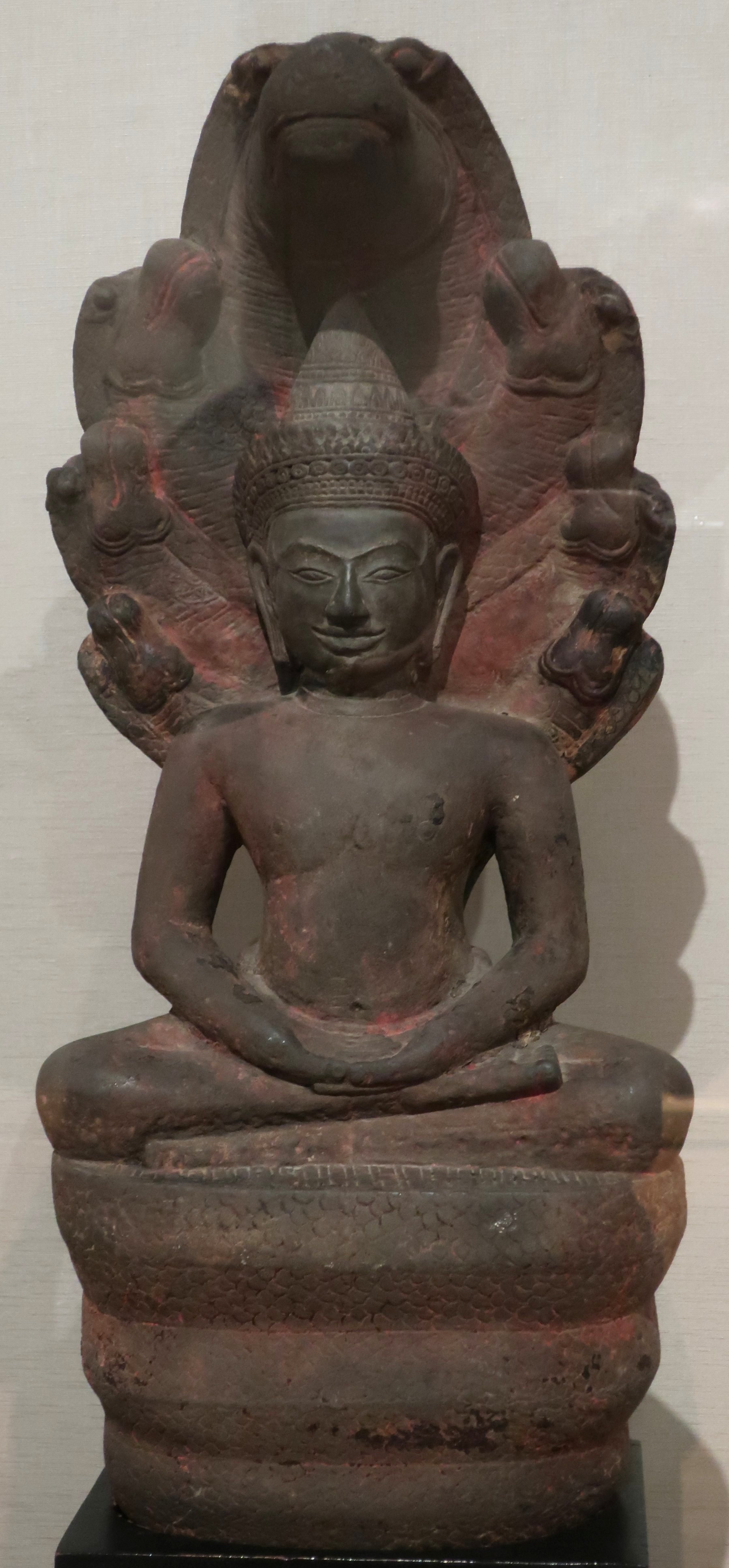 Muchilinda Buddha from Cambodia, Angkor kingdom, Bayon style, 12th century, sandstone with traces of pigment and gold, Honolulu Museum of Art accession 12839.1